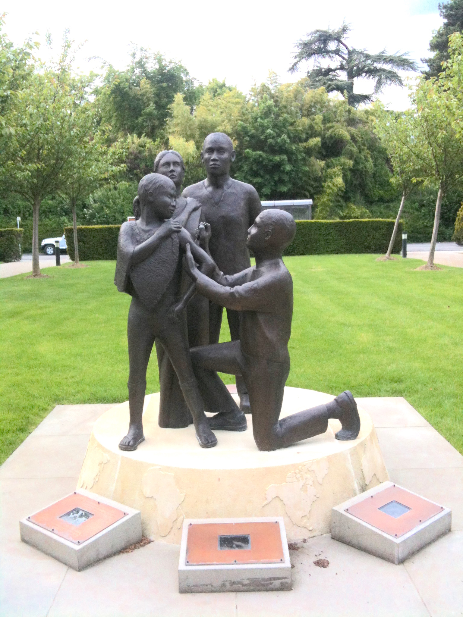 The monument is dedicated to smallpox eradication. It is installed next to WHO headquarter in Geneva